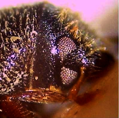 Polygraphus poligraphus bipartited eyes.